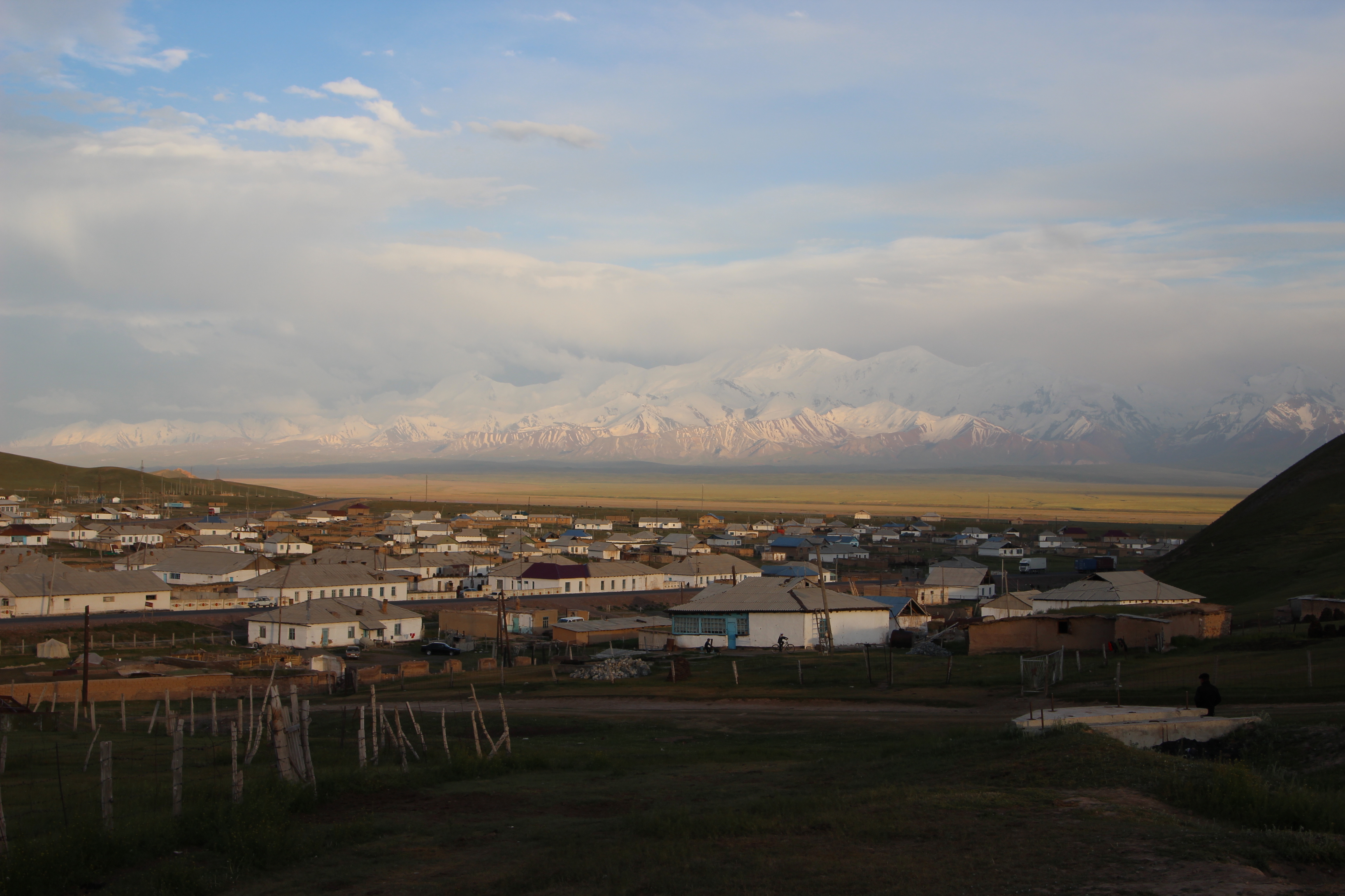 the town of Sary-Tash in Kyrgyzstan, in the background the mountain ranges of Trans-Alai and Pamir